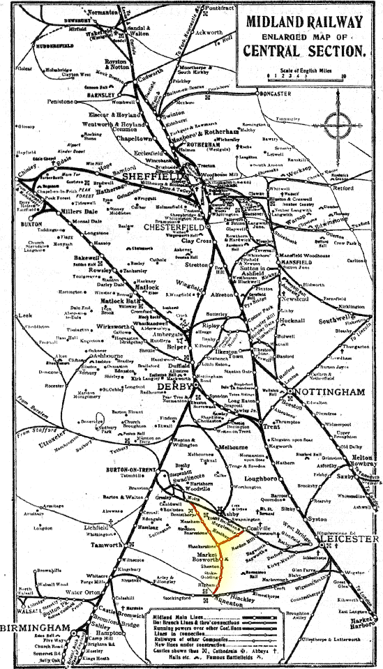 Battlefield Line location map.png Battlefield Line Contents 1 Automatically converted to PNG 1.1 Previous file history 2 Licensing 3 Original upload log Automatically converted to PNG The PNG crusade bot automatically converted this image to the more efficient PNG format. The image was previously uploaded as "BattlefieldlineLocationMap2.GIF". Previous file history 20:12:42, 27 March 2007 (UTC) . . Tivedshambo (Talk